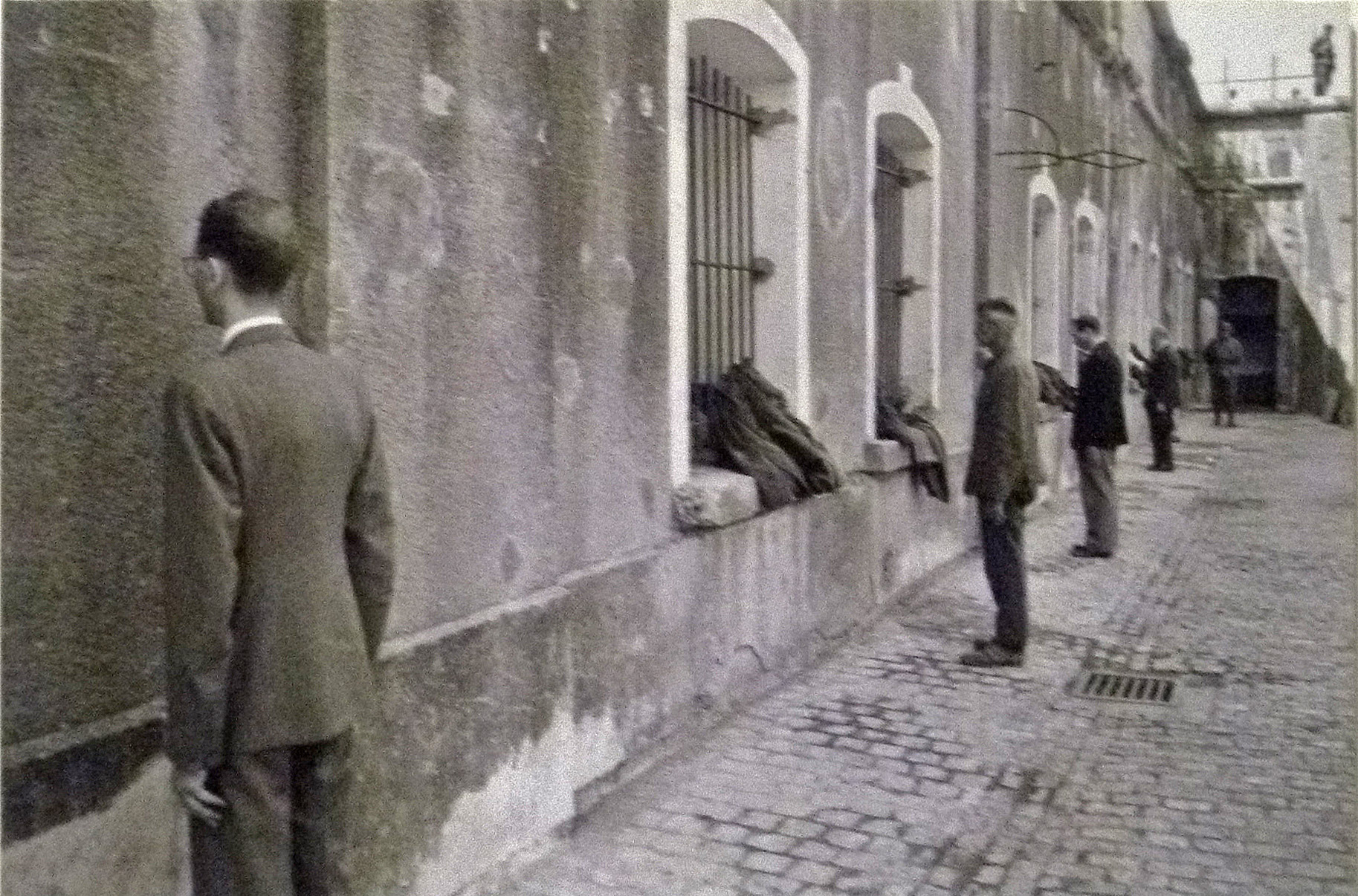 Newly arrived prisoners at the Breendonk detention camp must wait to be registered and receive clothes by the camp staff; in the background Wehrmacht sentinels. Anyone who dared to move during this procedure was punished by the guards with physical maltreatment